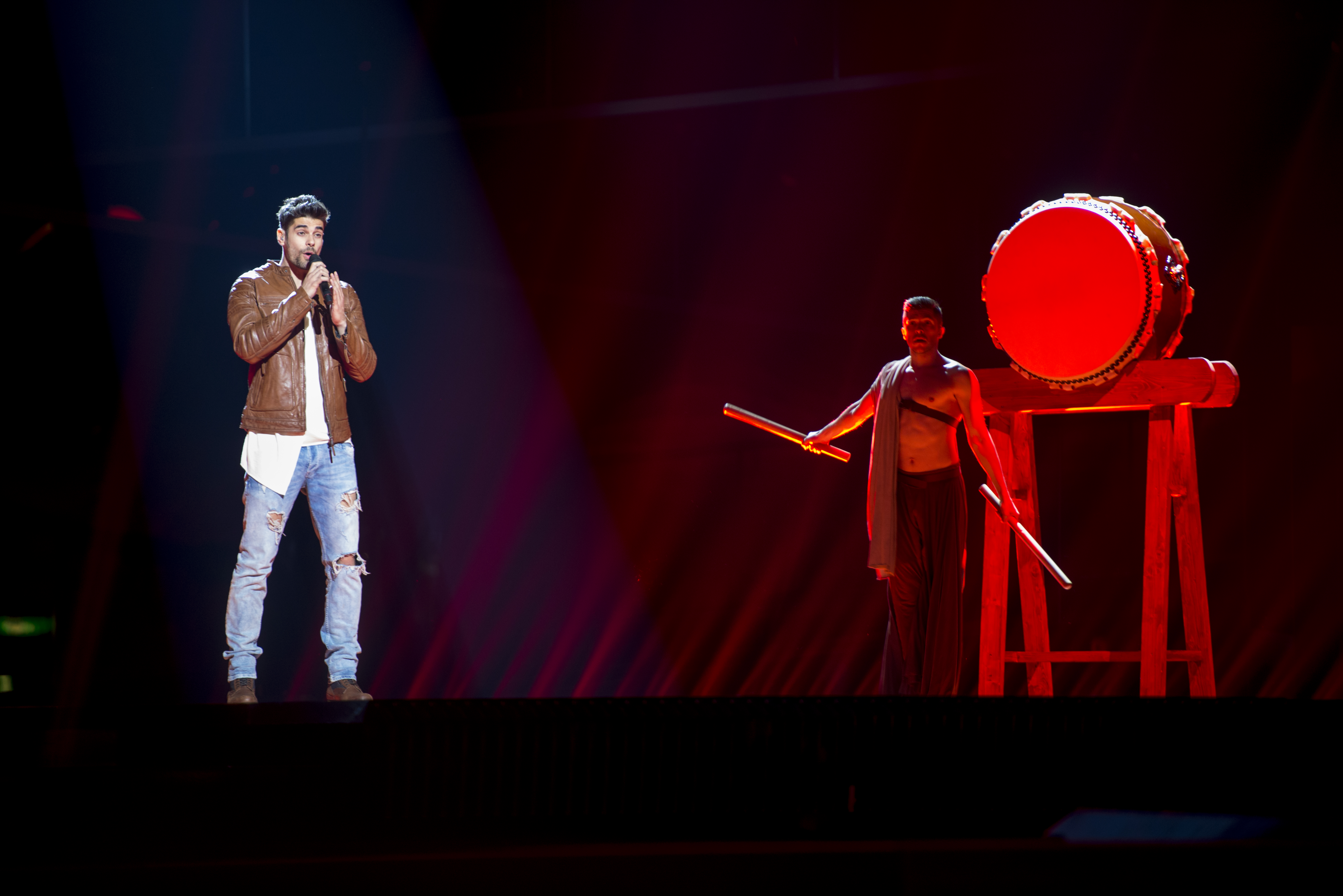 Freddie representing Hungary with the song "Pioneer" during a rehearsal before the first semi final of the Eurovision Song Contest 2016 in Stockholm. (Help translate this text)